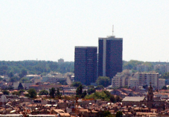 Cité administrative of Bordeaux from Hermitage garden of Lormont